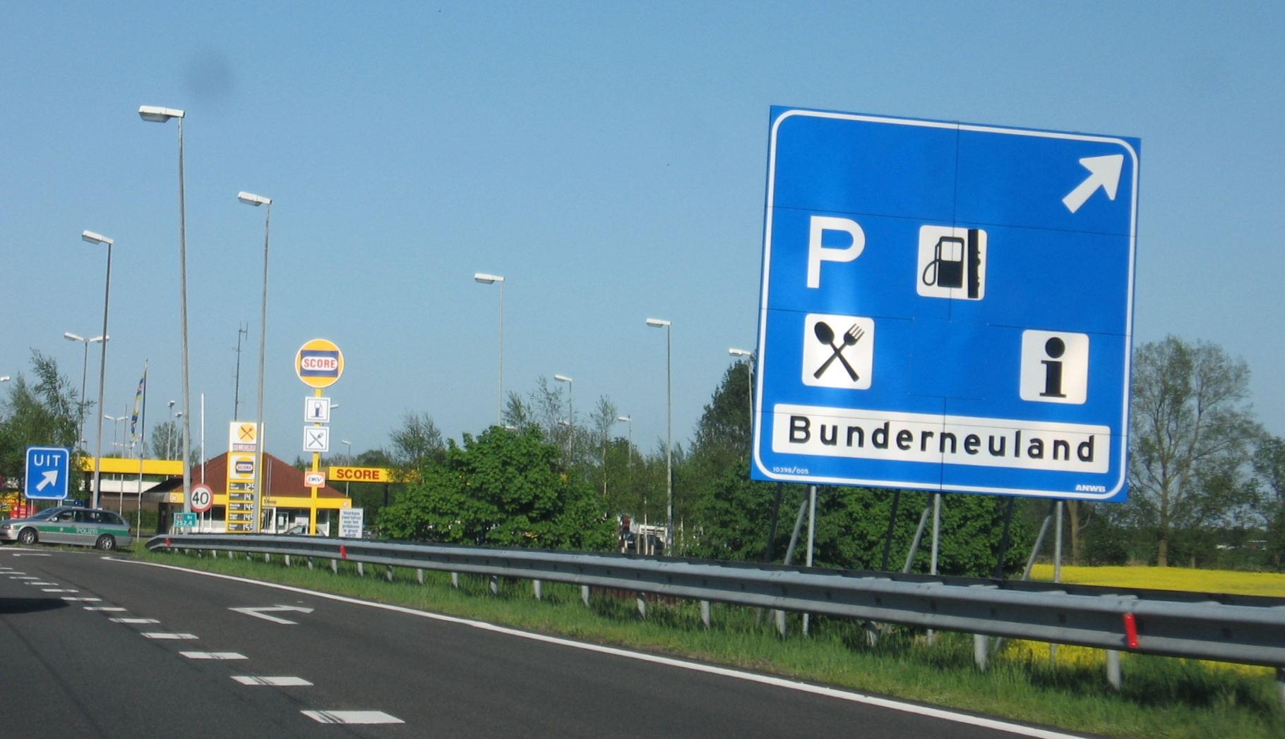 Filling station and service area "Bunderneuland" (Rijksweg 7) south-east of the Dutch-German border